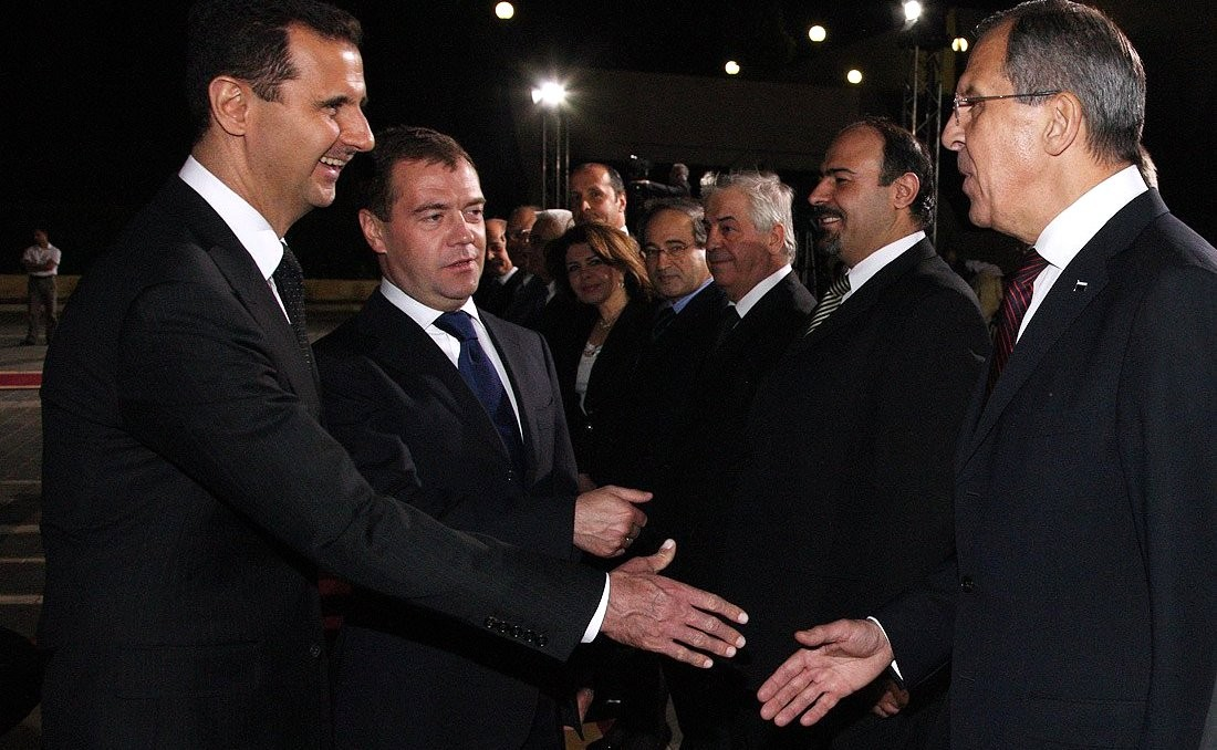 Arrival in Damascus